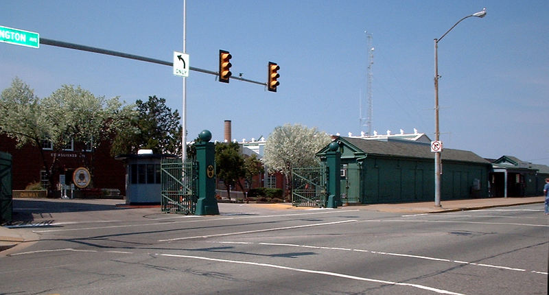 Main Gate, 37th st. and Washington Ave., Northrop Grumman Newport News (NGNN), formerly called Newport News Shipbuilding and Drydock Company (NNS&DD or simply NNS)